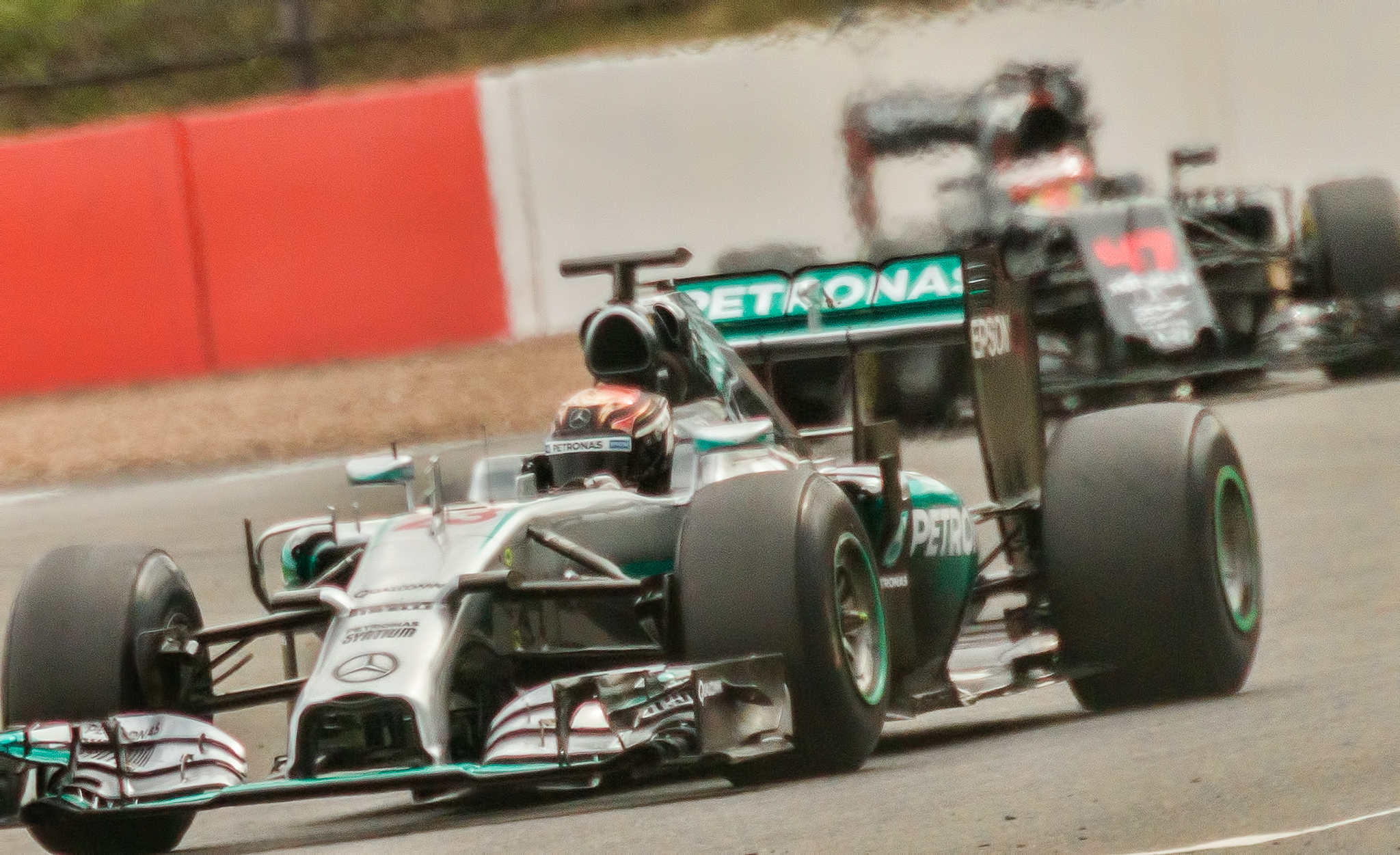 Pascal lWerhlein and Stoffel Vandoorme during the Silverstone test, july 2016